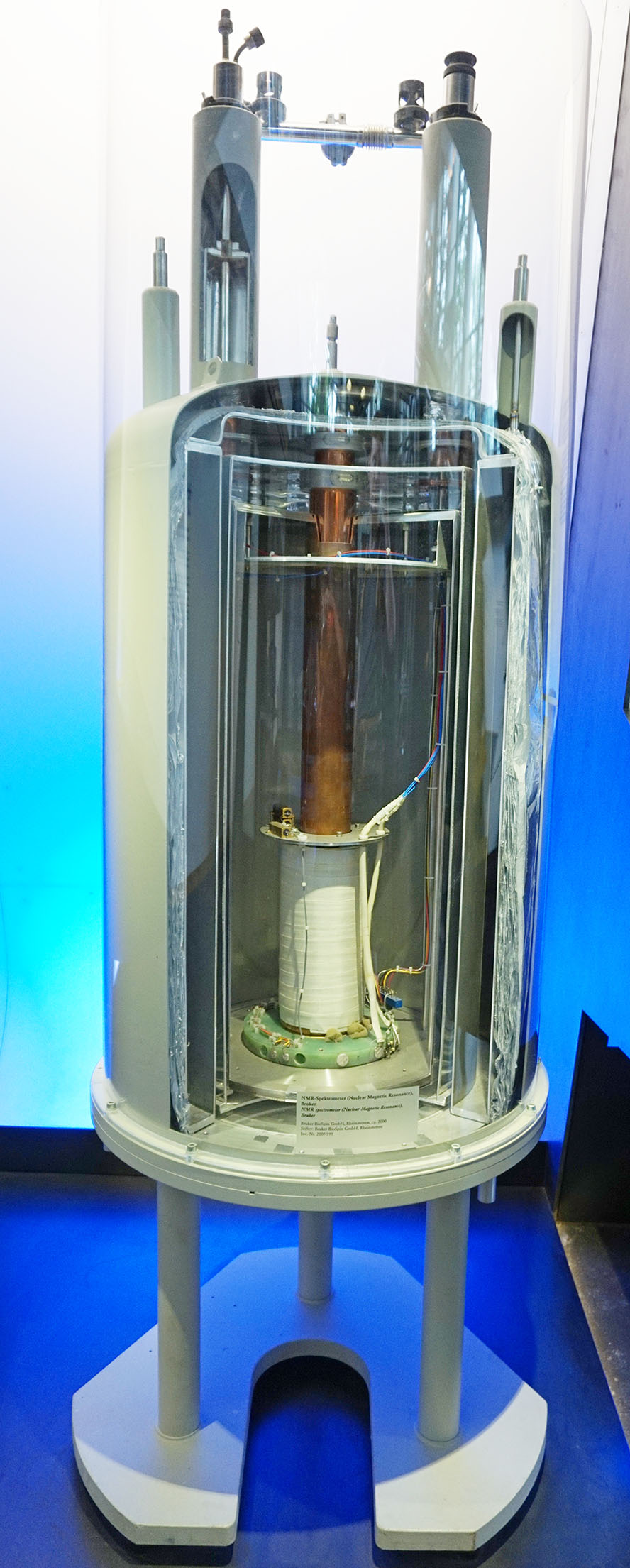 NMR spectrometer, Bruker. Deutsches Museum, Munich.This photograph was taken with a Sony ILCE-5000